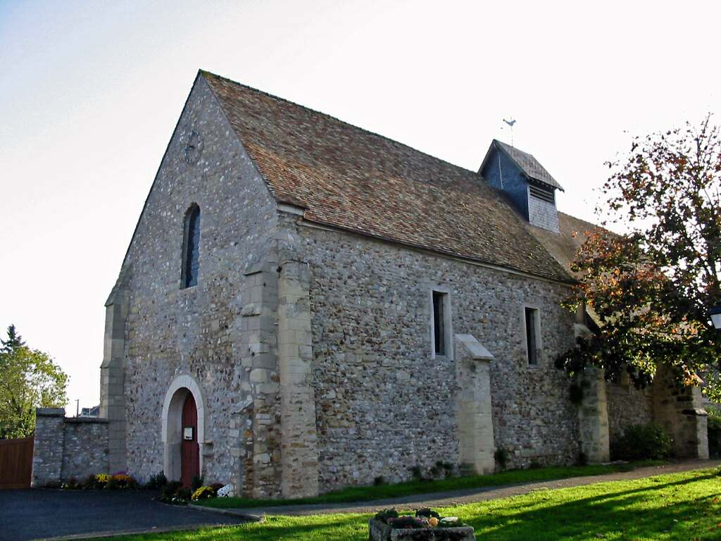 Church of Hargeville (Yvelines, France)